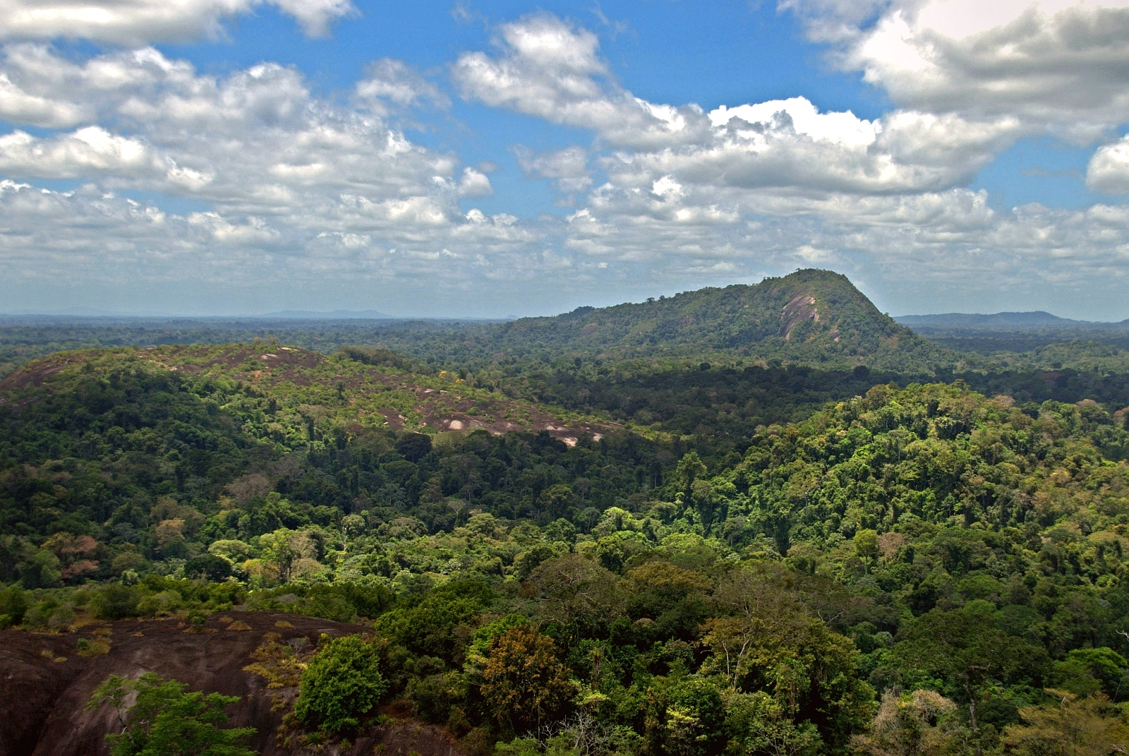 This is a reworked version of a photograph I took at the summit of Mt. Voltzberg in Suriname (South America), viewing the Van Stockumberg. I just discovered the shadows/highlights function in photoshop and was able to bring out detail in the darker spots.